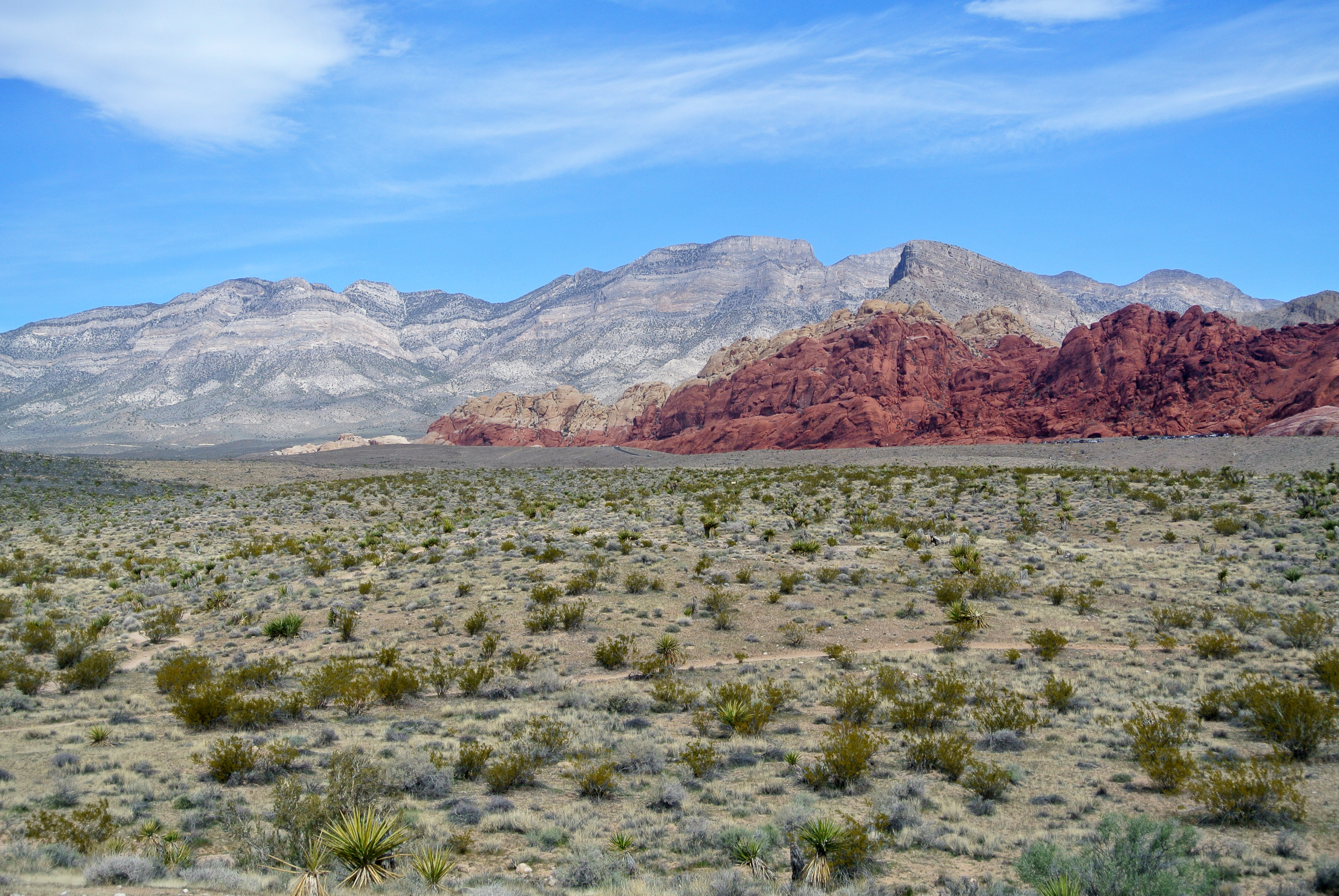 Red Rock Canyon National Conservation Area, southern Nevada.